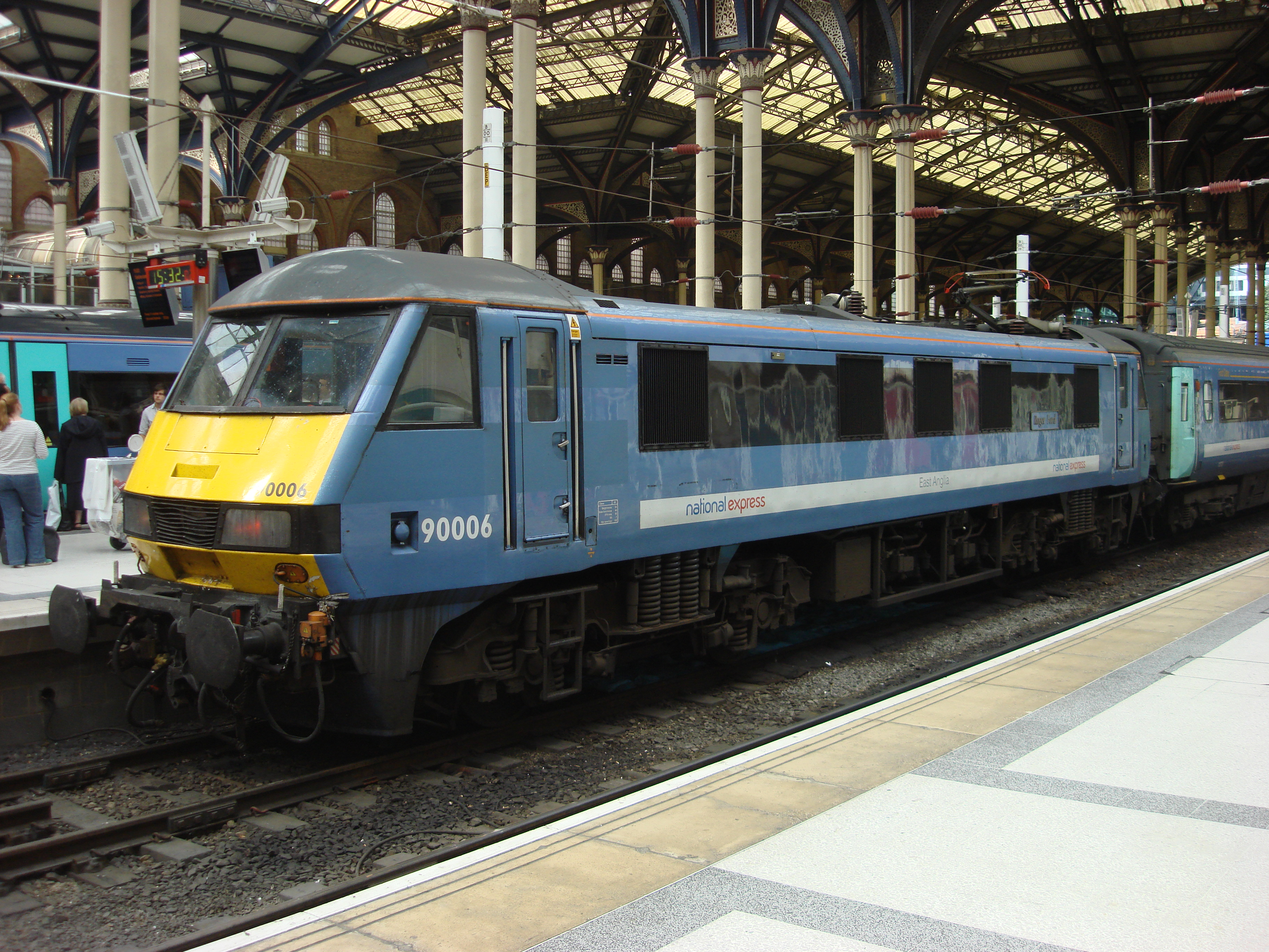 British Rail Class 90 number 90006 stands at London Liverpool Street, carrying nameplates "Roger Ford" on one side and "Modern Railways magazine" on the other side